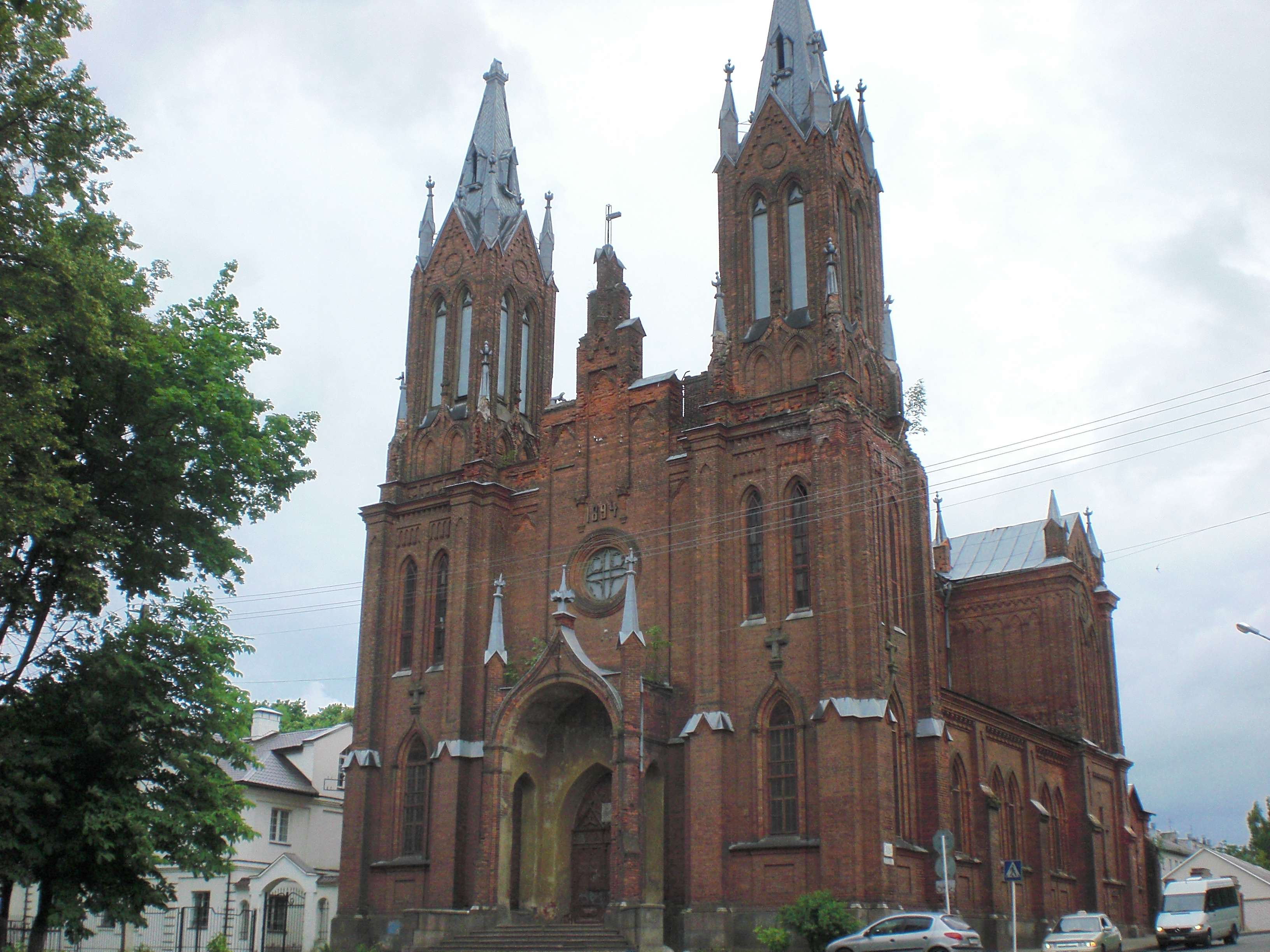 Roman Catholic church in Smolensk